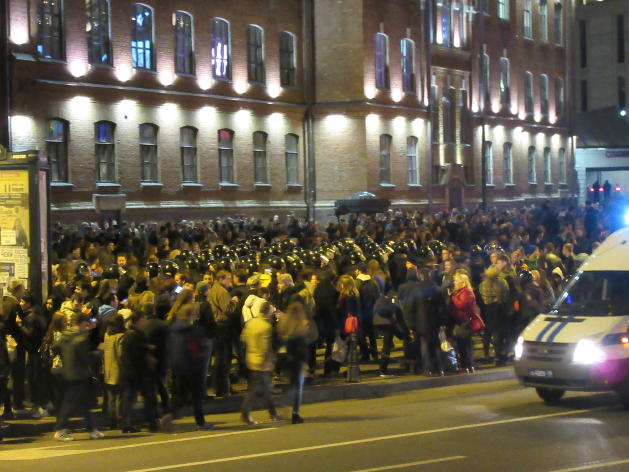 St. Petersburg, Russia. 2017-10-07 Navalny supporters gathered at Campus Martius on 6 p. m. and marched towards Vosstaniia square. Near Galeria shopping mall.